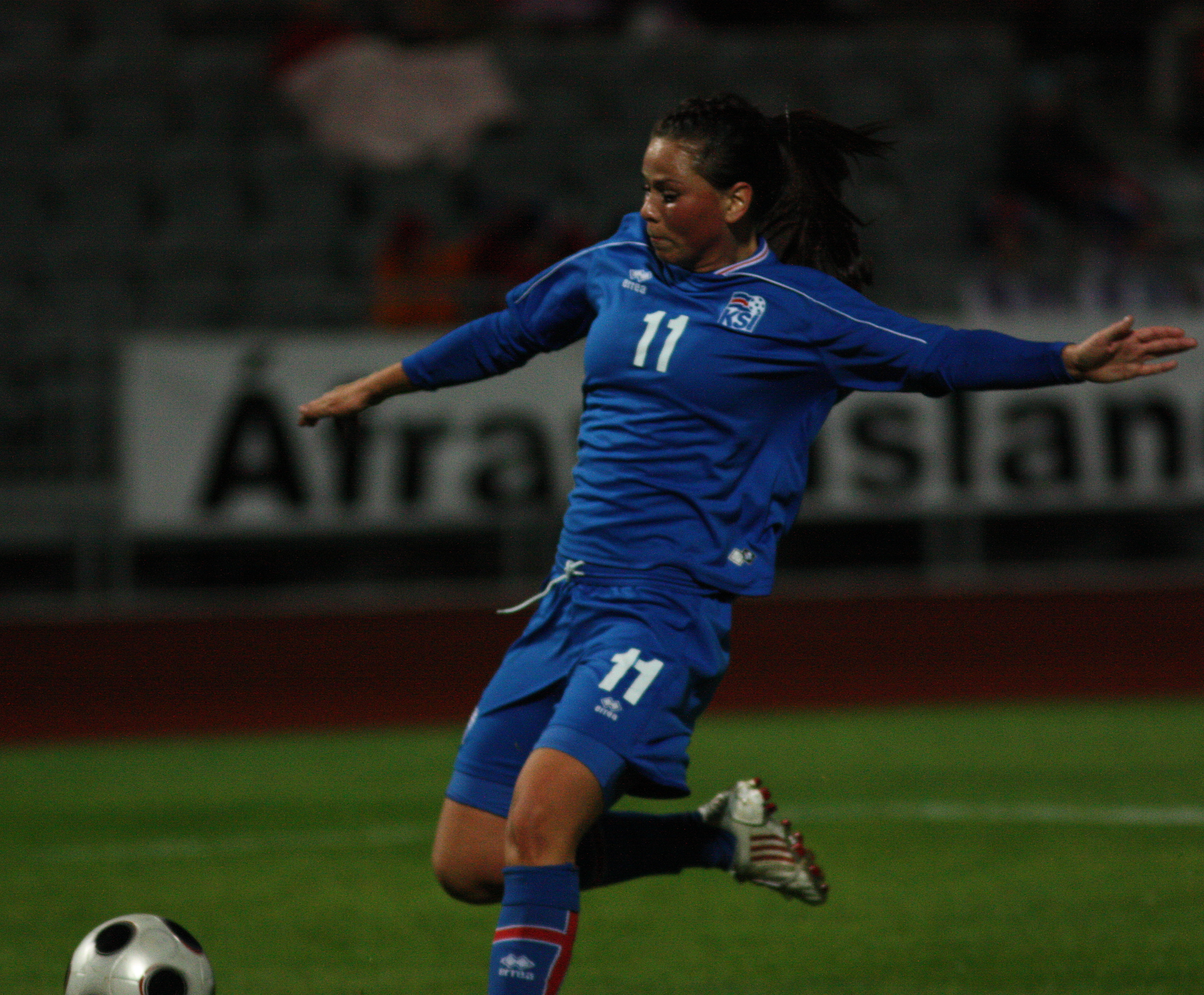 Iceland - Estonia/2011 FIFA Women's World Cup qualification UEFA Group 1